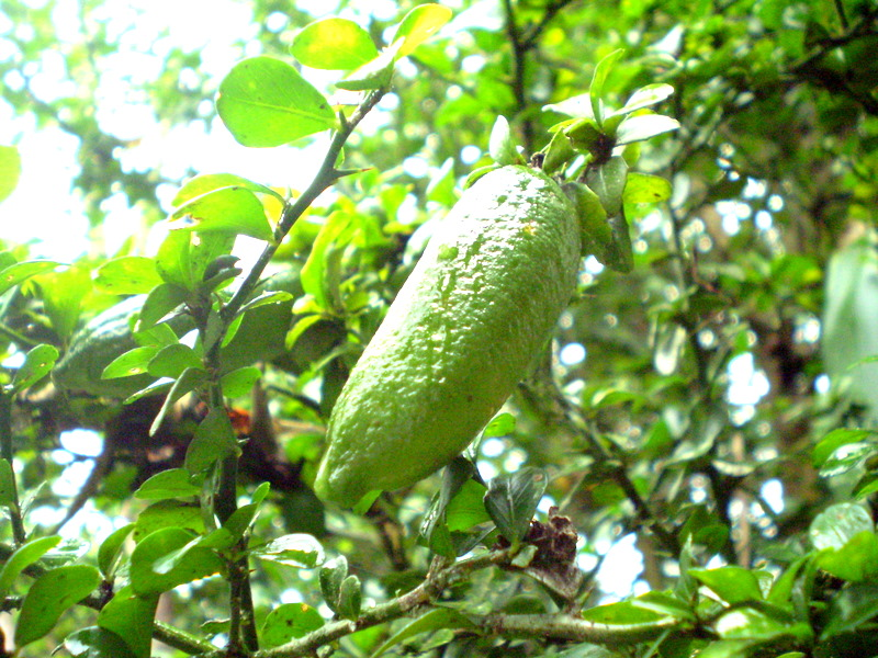 Citrus australasica, 'finger lime', green skin type.